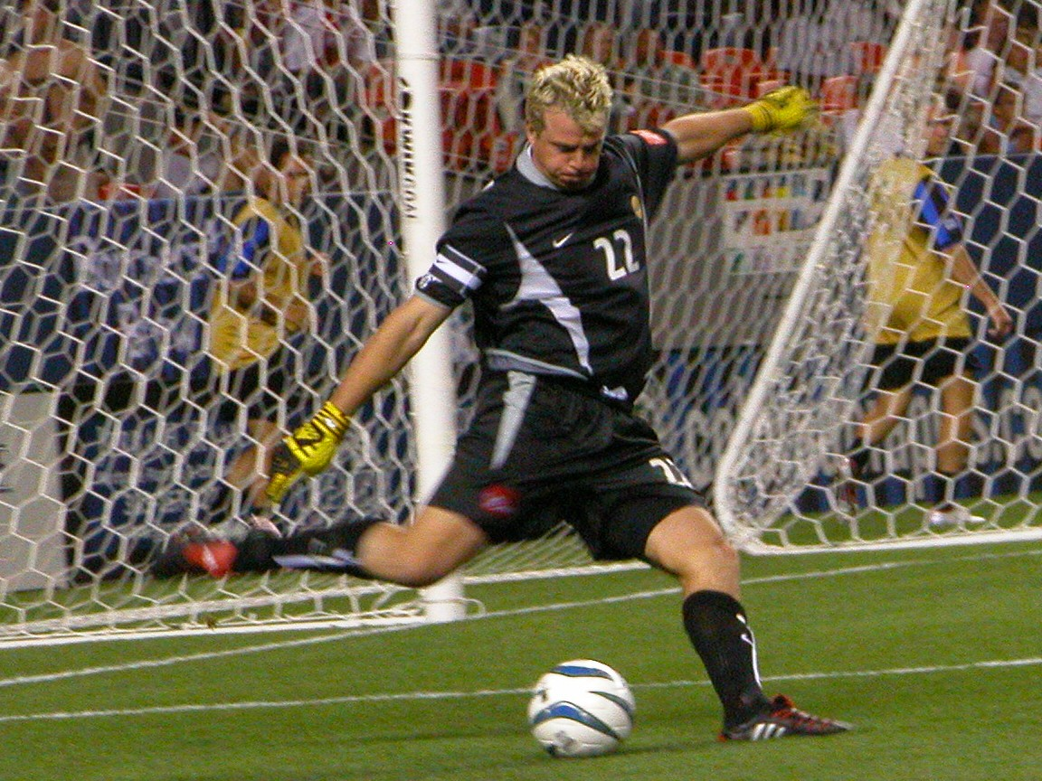 Kevin Hartman at invesco field